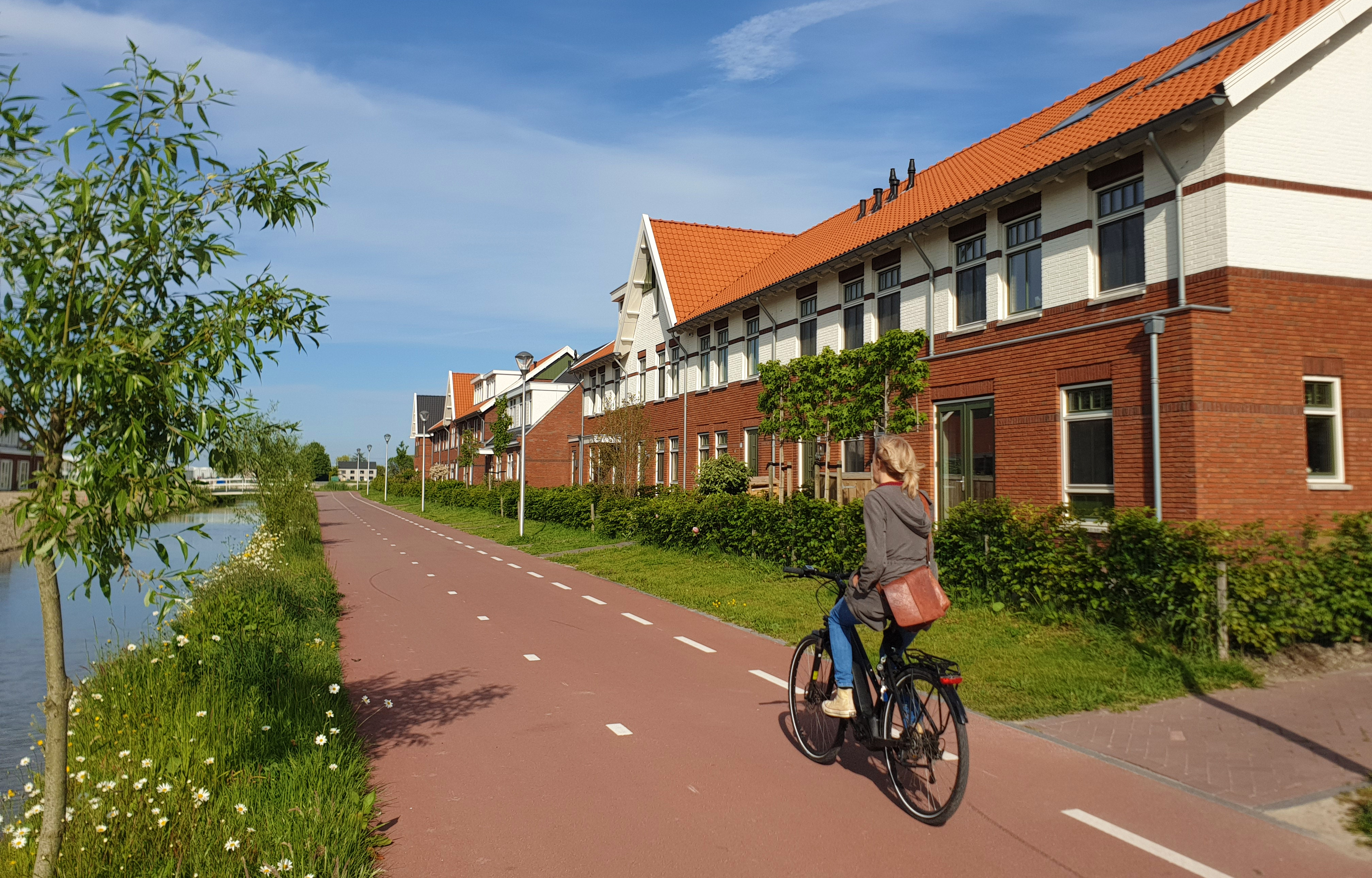 Photo by urban planner Nanda Sluijsmans